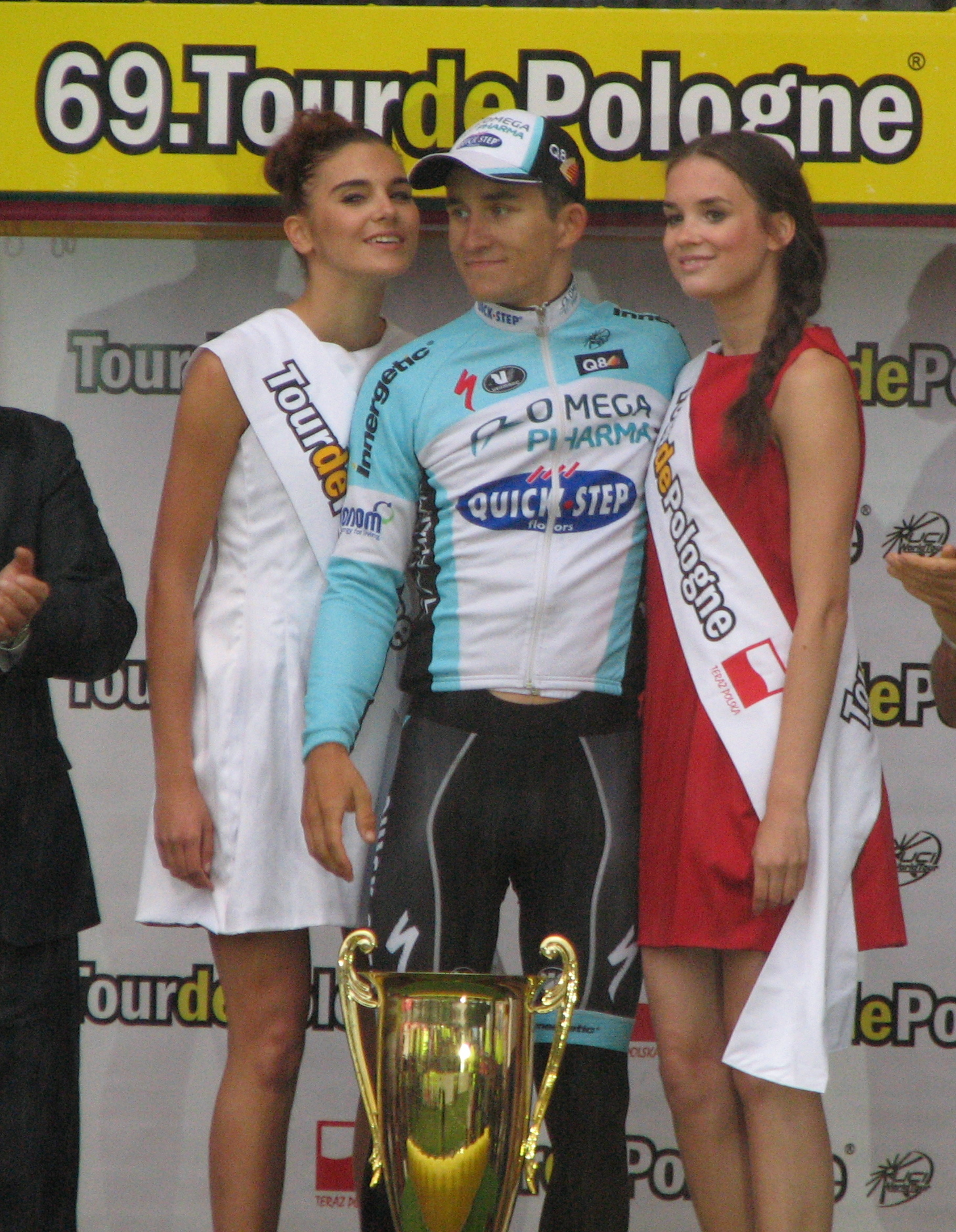 Michał Kwiatkowski receives in Krakow one of his awards won during Tour de Pologne 2012 - a cup founded by Prime Minister of Poland.